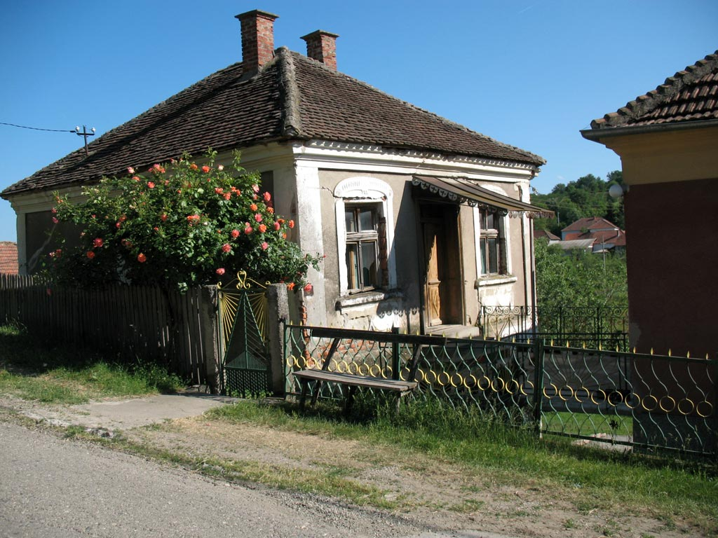 Old house in Motrić